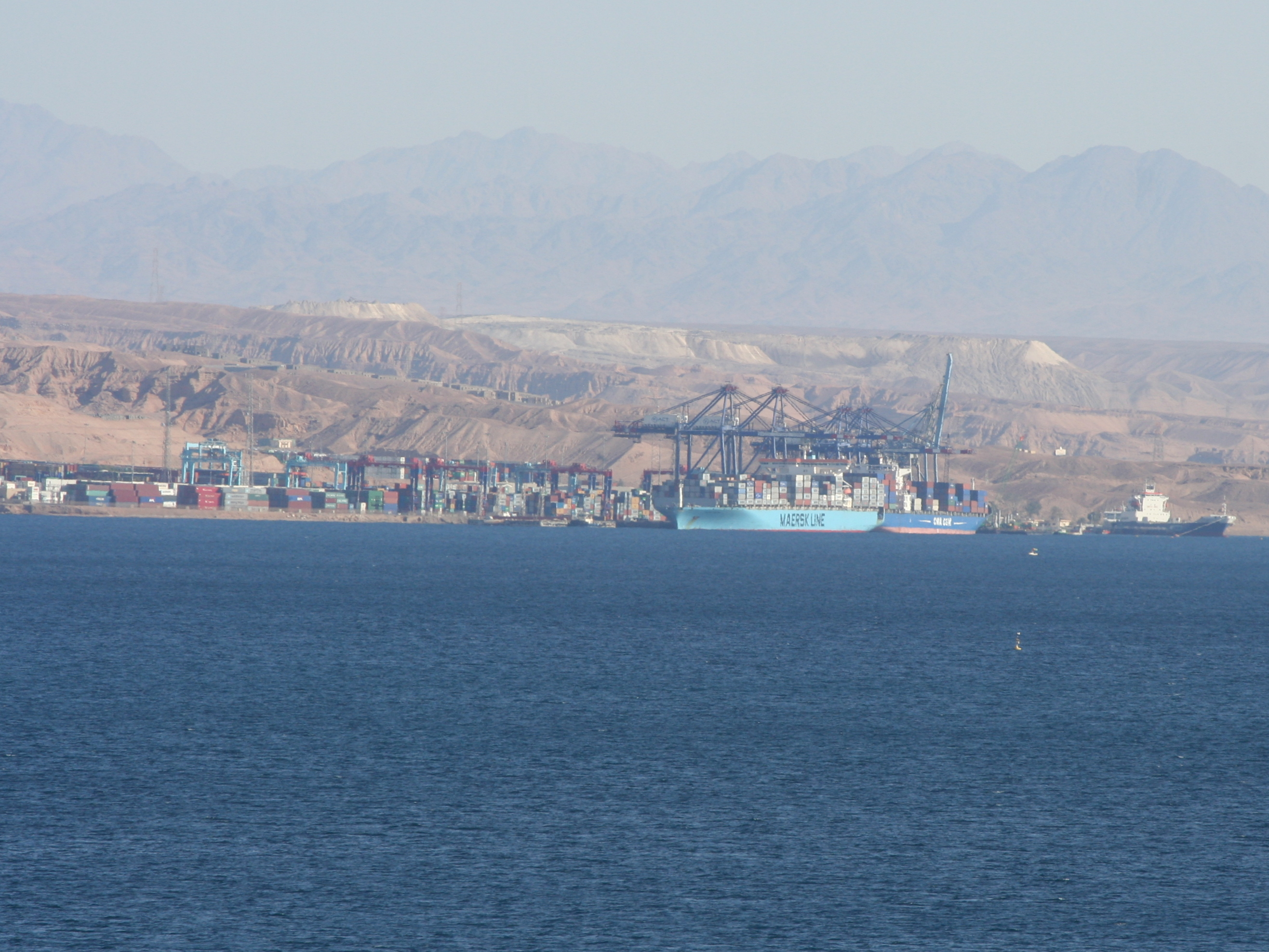 Port of Aqaba container depot